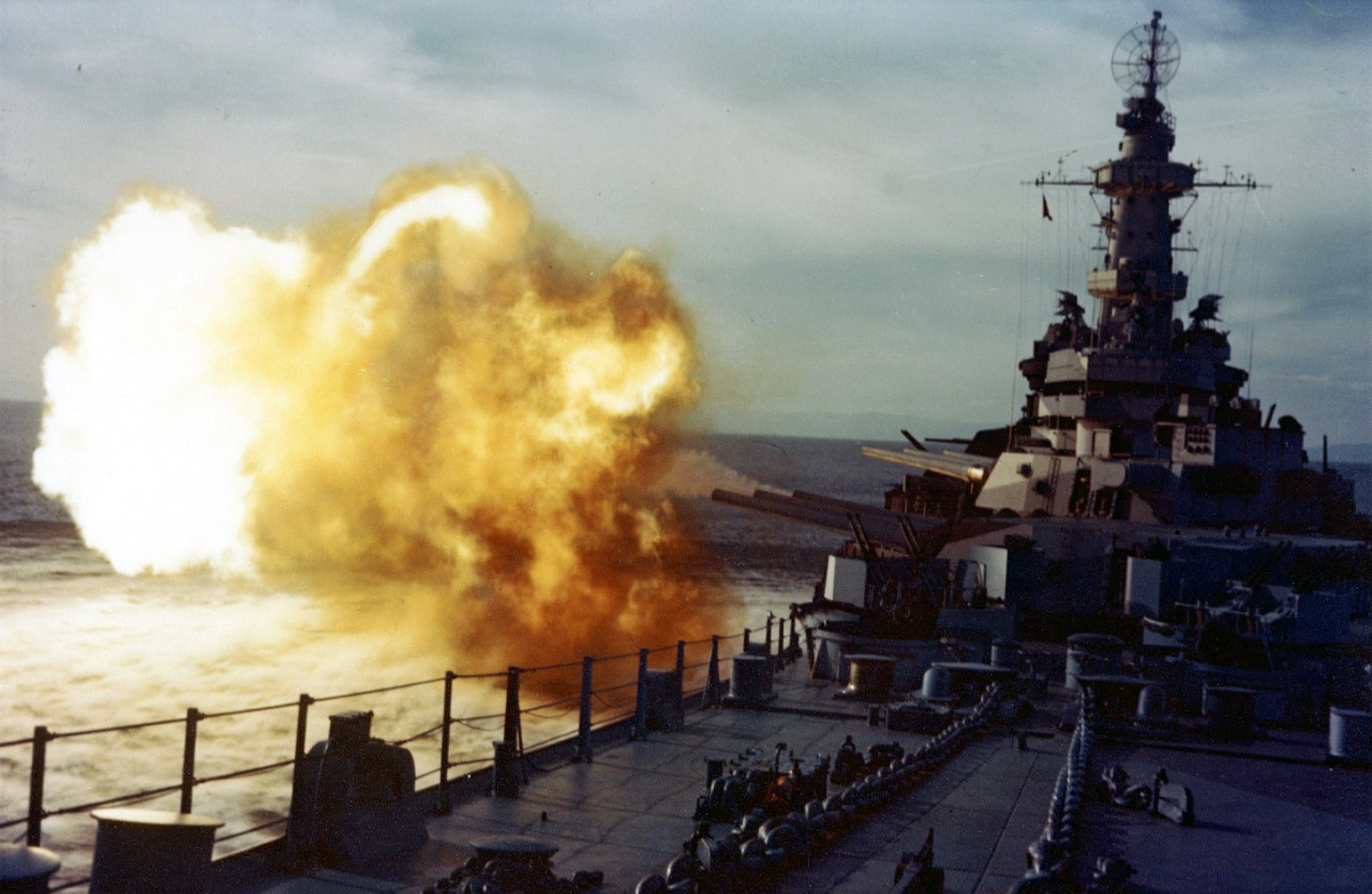 Fires a salvo from the forward 16"/50 gun turret, during her shakedown period, circa August 1944.